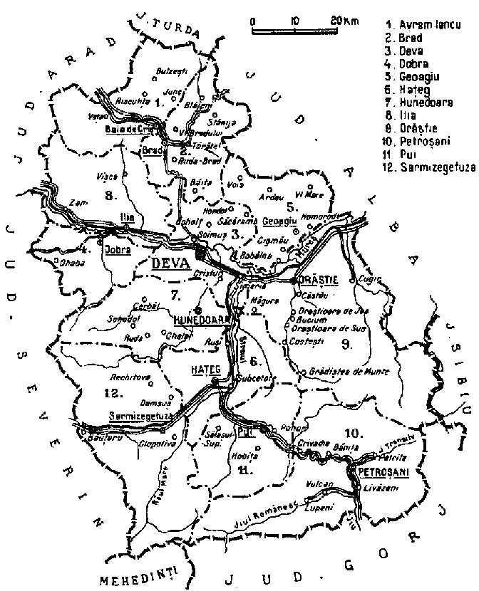 Map of Hunedoara interwar county, Kingdom of Romania (1938).